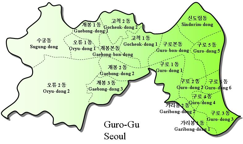 A map of the 19 dongs of Guro-Gu, Seoul